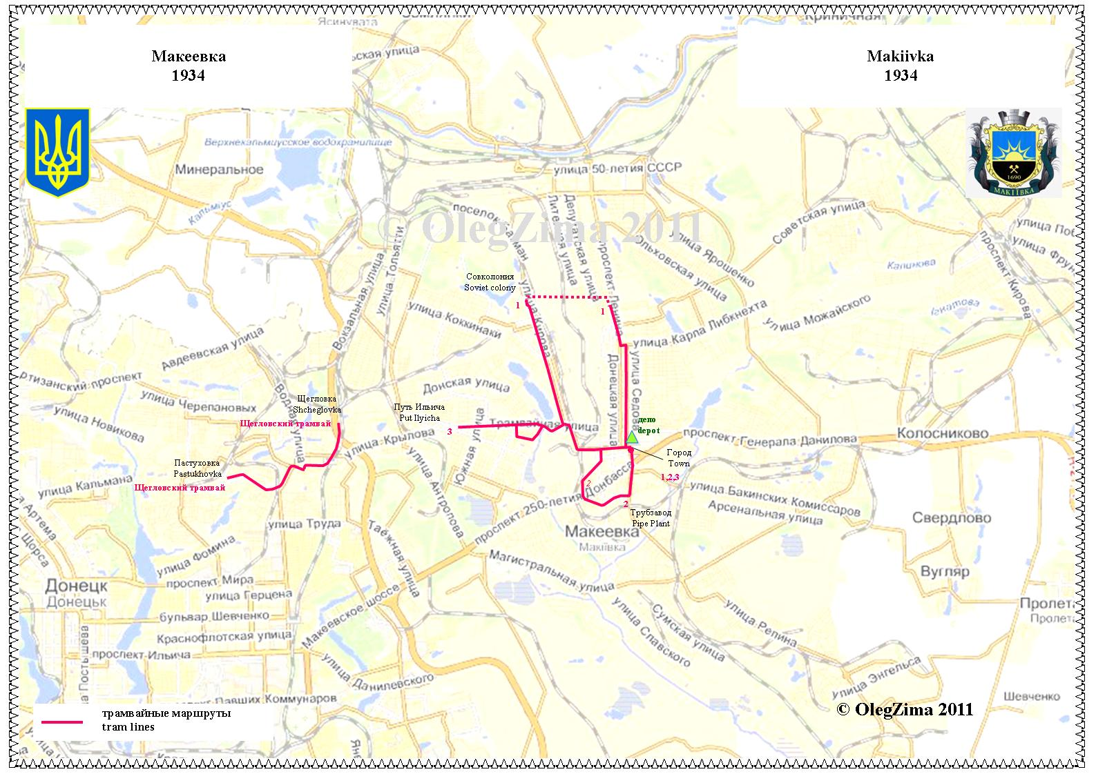 map of transport of Makeevka (Makiivka) city at 1934